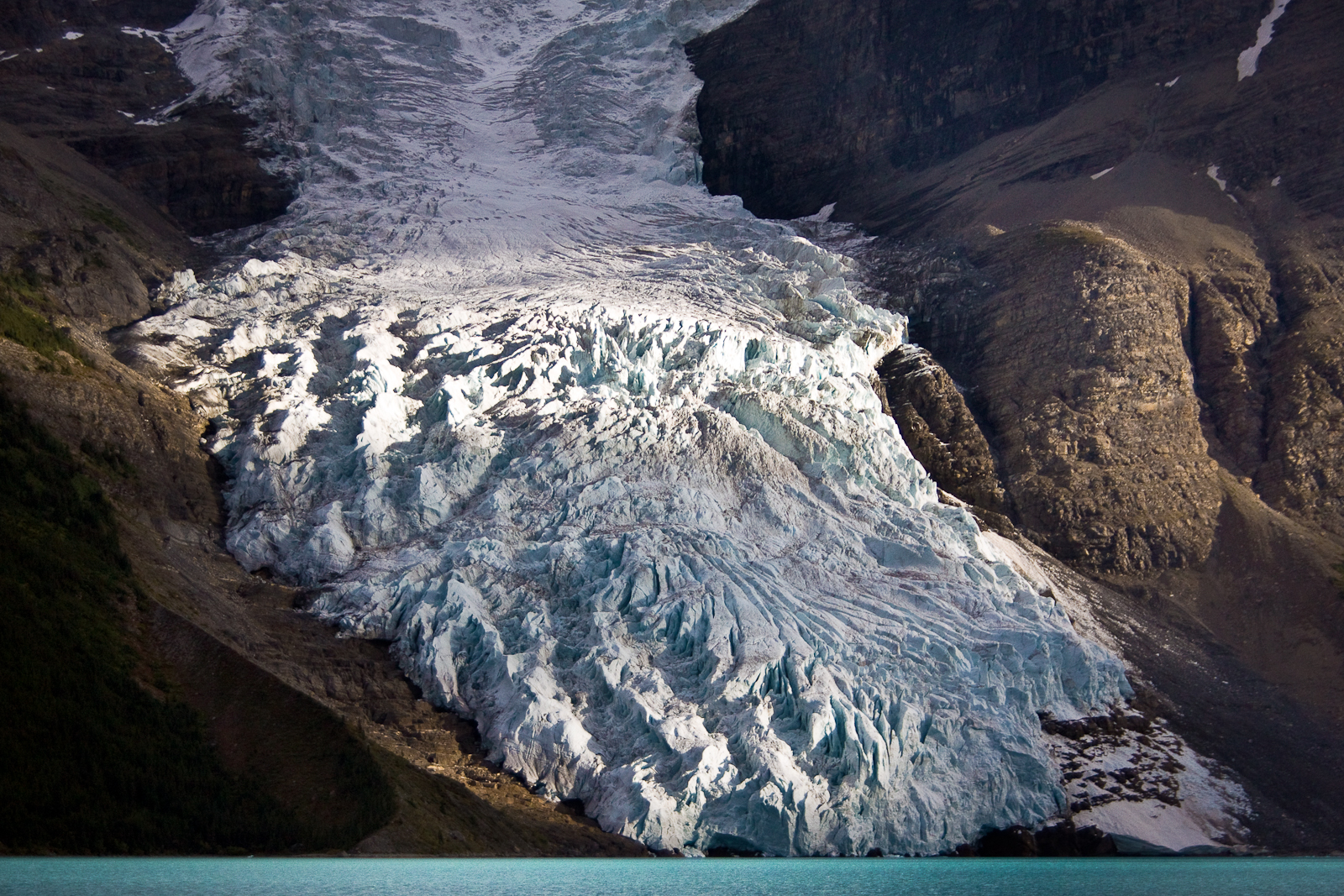 Berg Glacier at Berg Lake, Mount Robson Provincial Park, B.C., Canada.